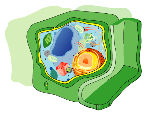 Plant cell structure (without caption)